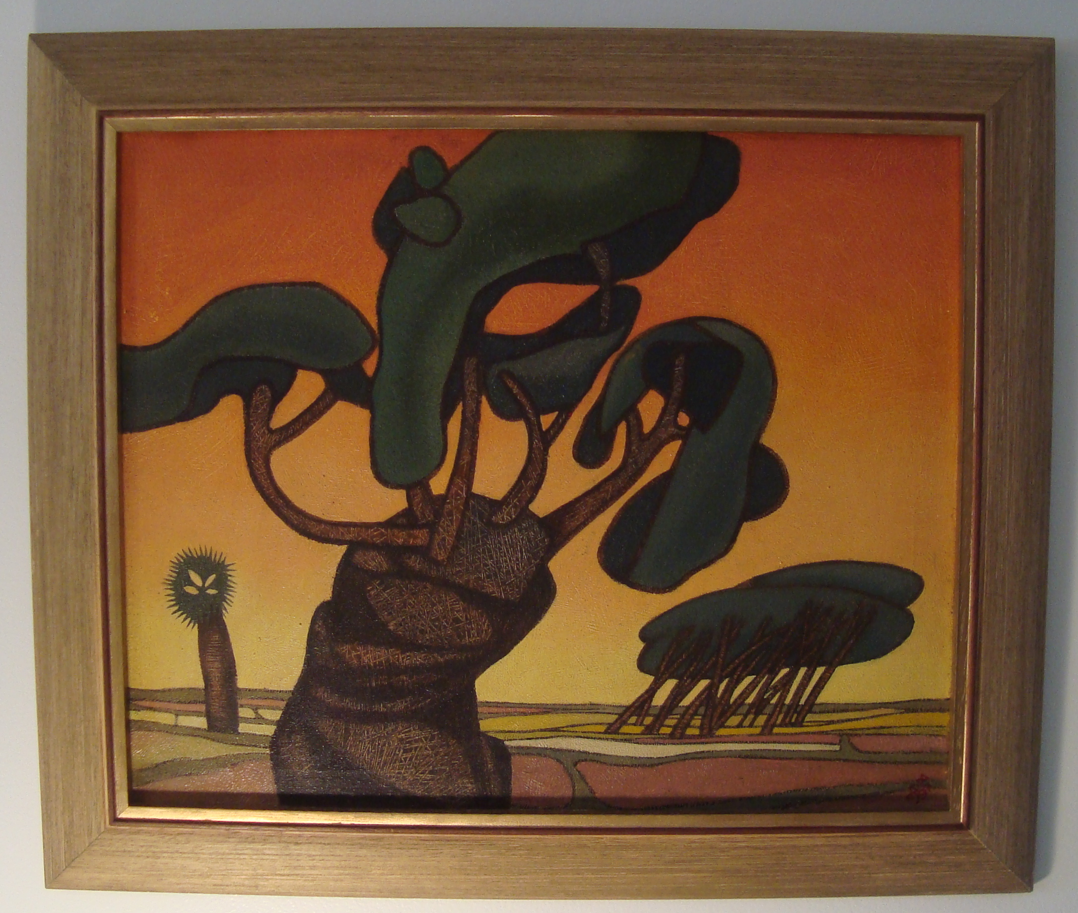 An image of a painting by Prokash Karmakar